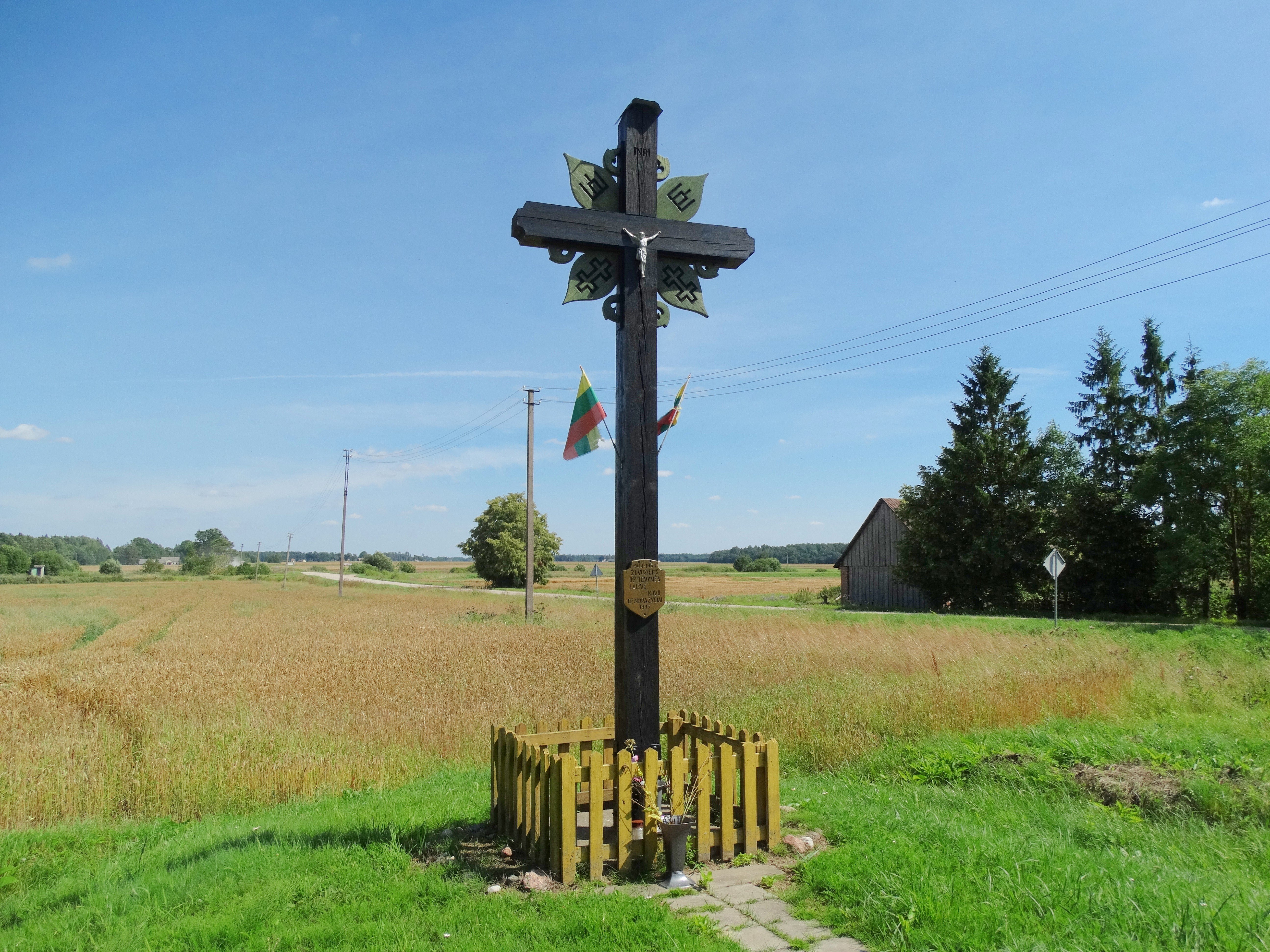 Miežaičiai, Radviliškis district, Lithuania